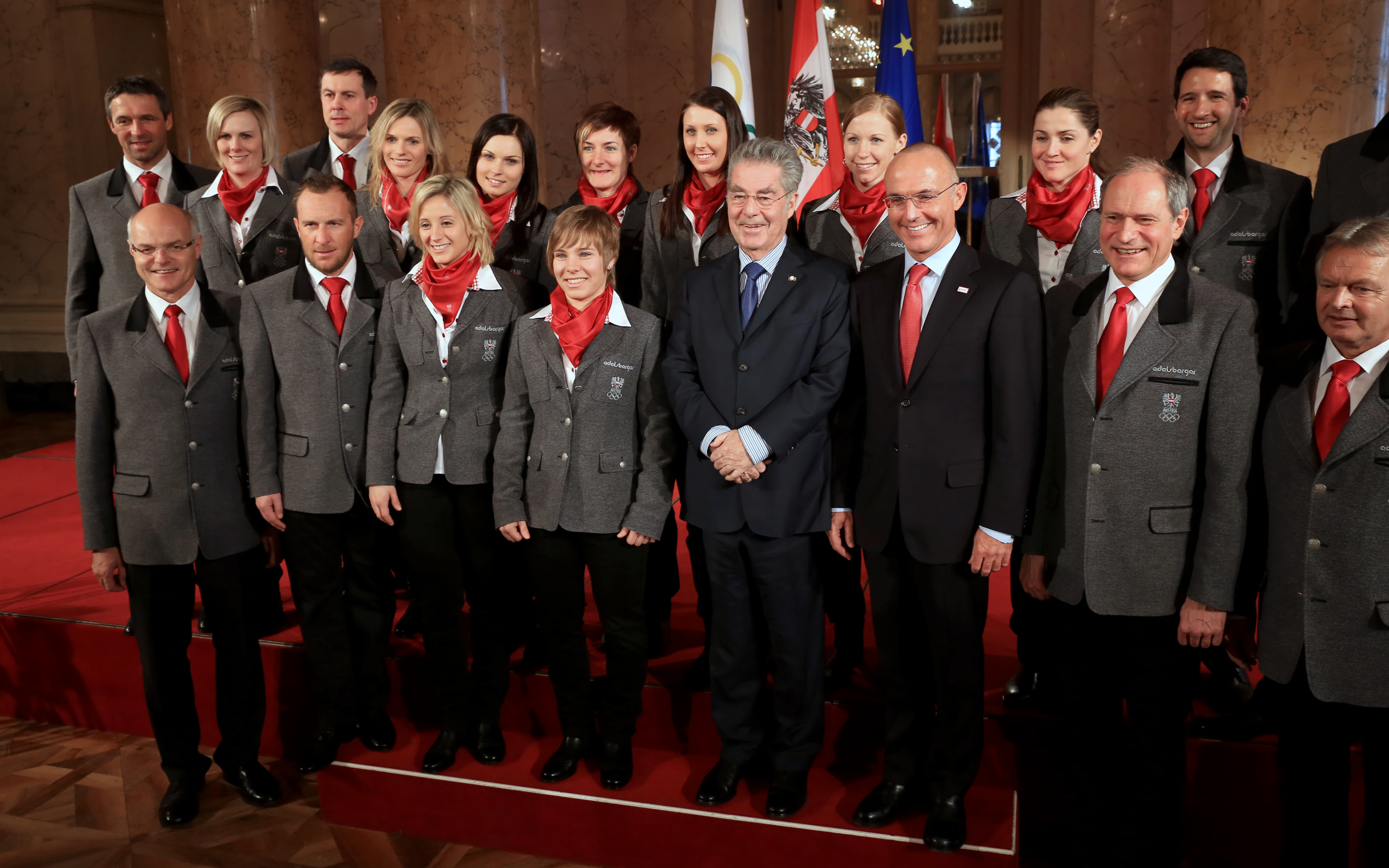 Athletes of the Austrian team for the 2014 Winter Olympics - Alpine skiing/Women: Anna Veith, Elisabeth Görgl, Nicole Hosp, Cornelia Hütter, Michaela Kirchgasser, Marlies Schild, Nicole Schmidhofer, Regina Sterz, Kathrin Zettel and support team with Federal President Heinz Fischer, Federal Minister Gerald Klug and ÖOC officials Karl Stoss and Peter Mennel; group picture taken at Hofburg Palace in Vienna, Austria.